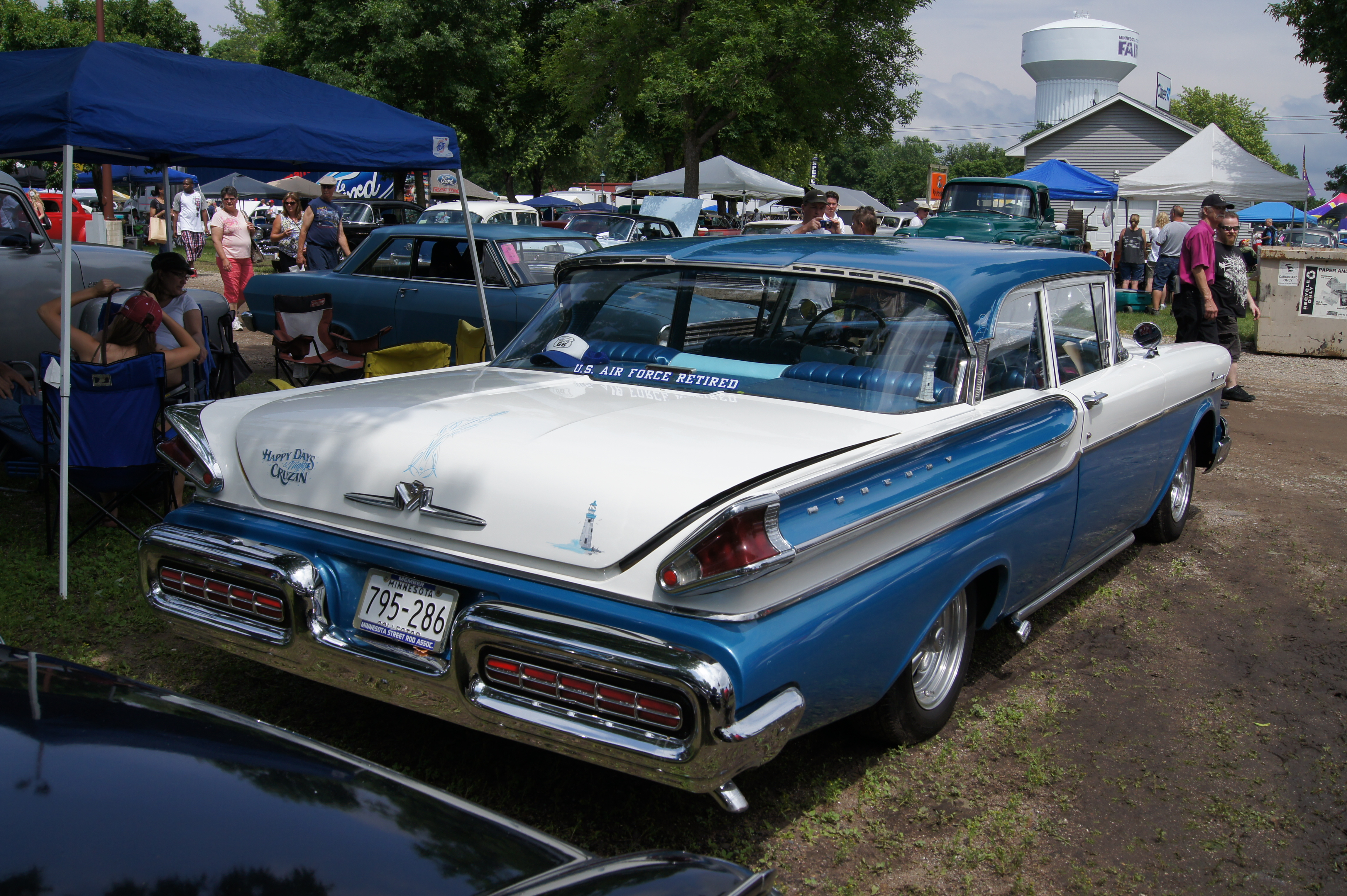 MSRA “BACK TO THE 50′s” 40th ANNIVERSARY June 21-23, 2013 State Fairgrounds St. Paul Minnesota More Car Pictures